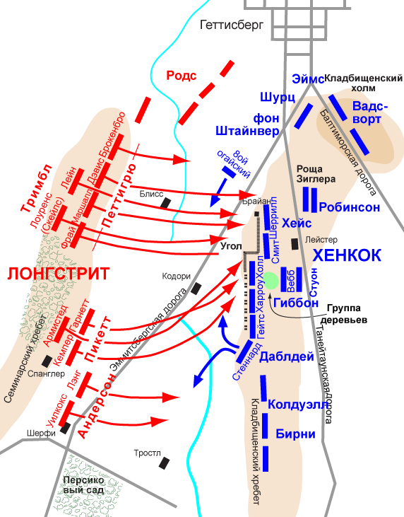 Map of Pickett's Charge of the American Civil War. Russian version of File:Pickett's-Charge.png